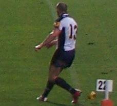 Stirling Mortlock converts a try for the Brumbies during their win over the Force at Subiaco Oval in February 2006.